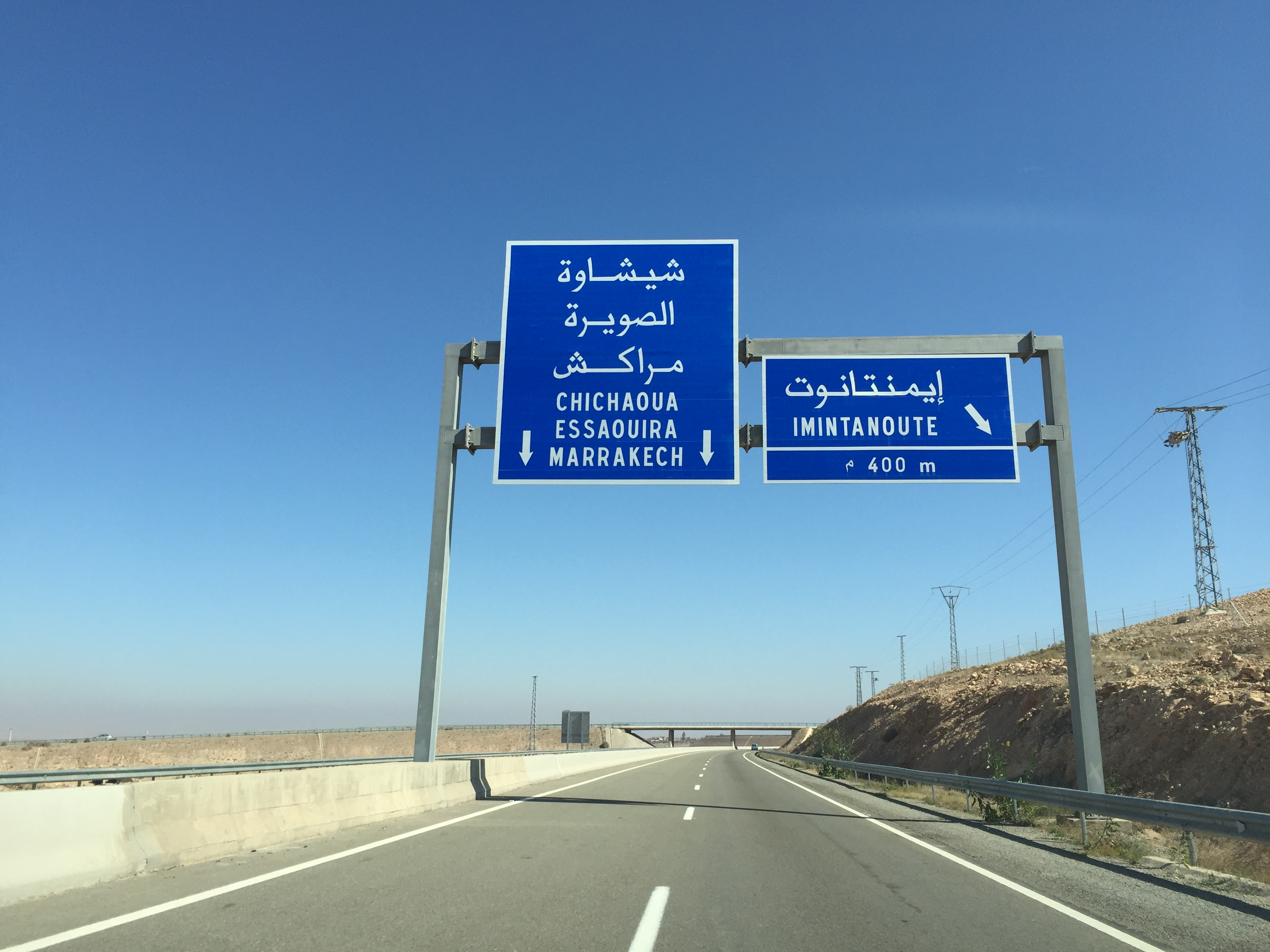 Imintanoute exist - Moroccan A7 expressway